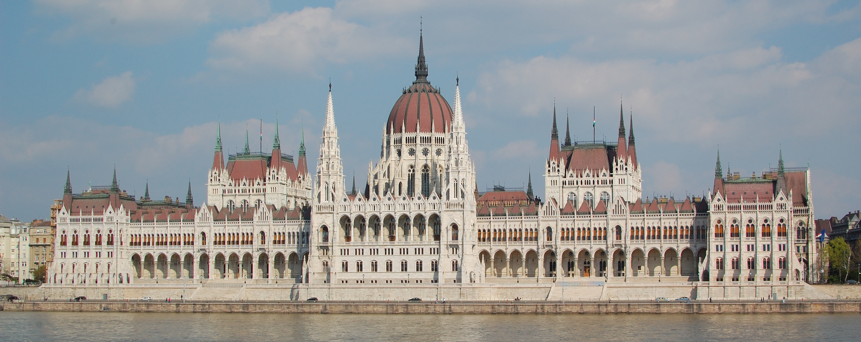 Parliament of Hungary, Budapest.